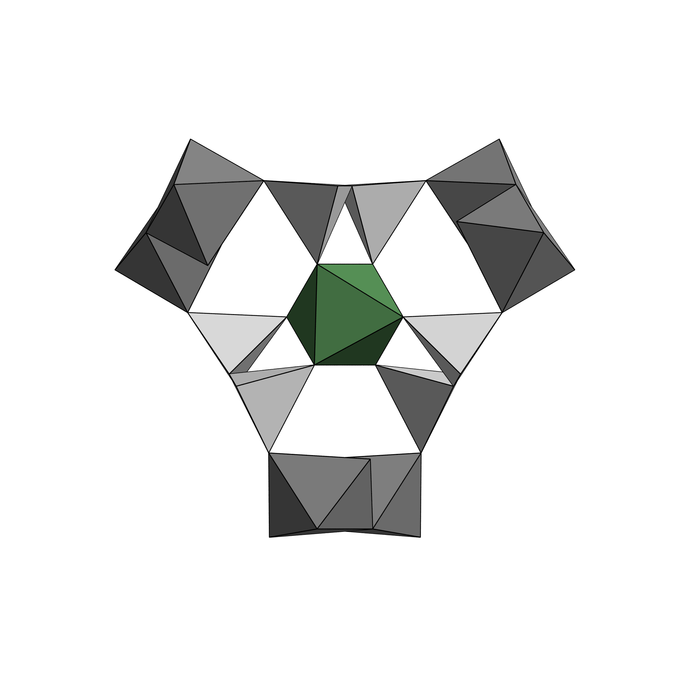 part of aerinite structure: chain of face-sharing Fe-octahedra surrounded by 3 Si-tetrahedra chains, viewed down the c axis green: Fe-Octahedra light gray: Si-tetrahedra chains dark gray: Al-octahedra chains